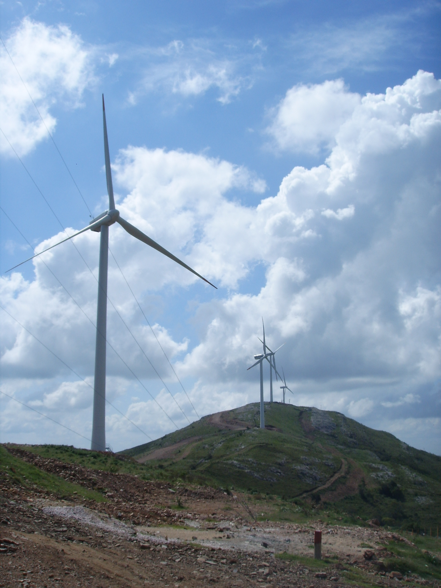 View of the 10 MW wind farm in Sierra de los Caracoles, Maldonado Department, Uruguay. This wind farm is owned and operated by UTE.